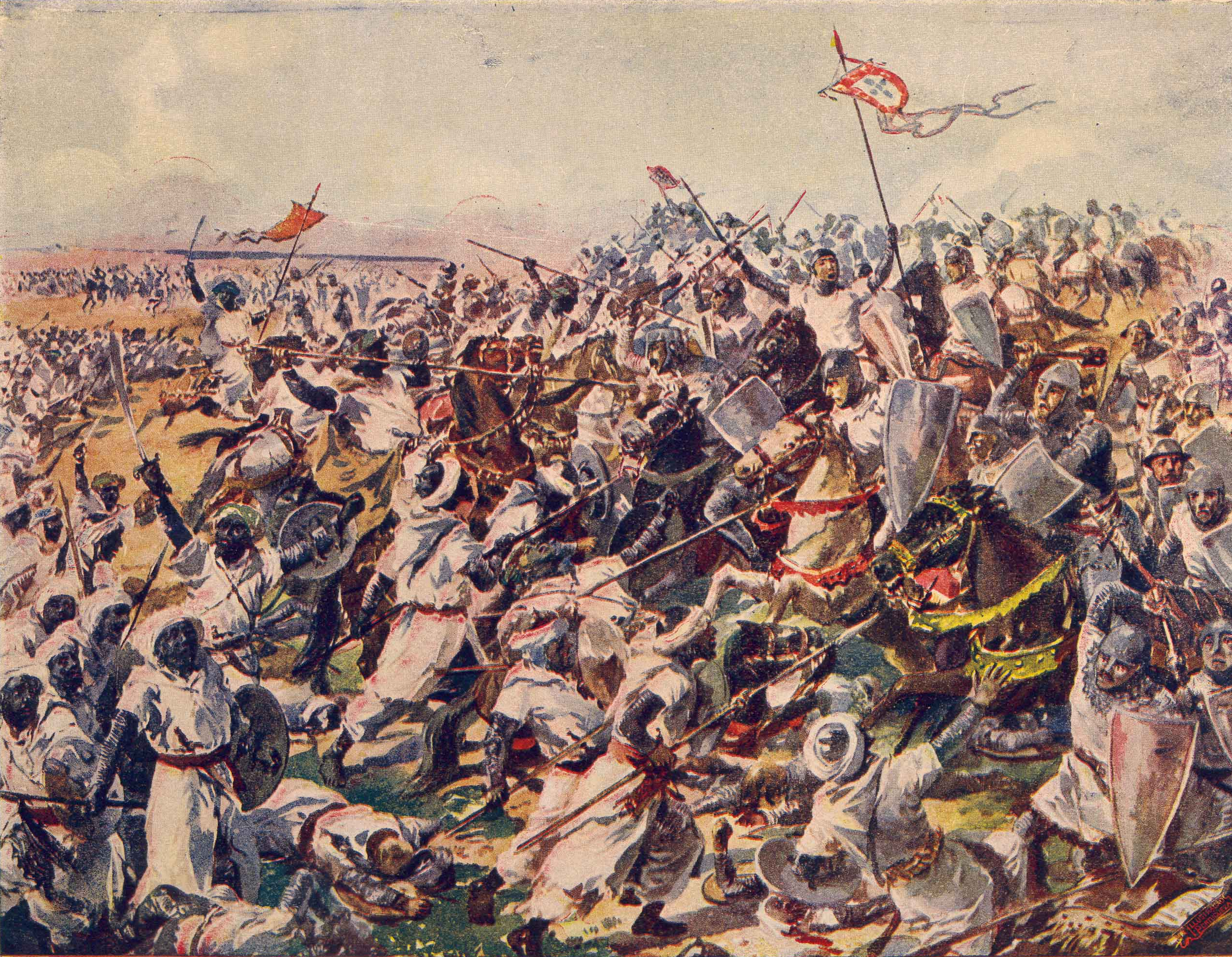 "Battle of Salado", by Roque Gameiro, in Quadros da História de Portugal ("Pictures of the History of Portugal", 1917).